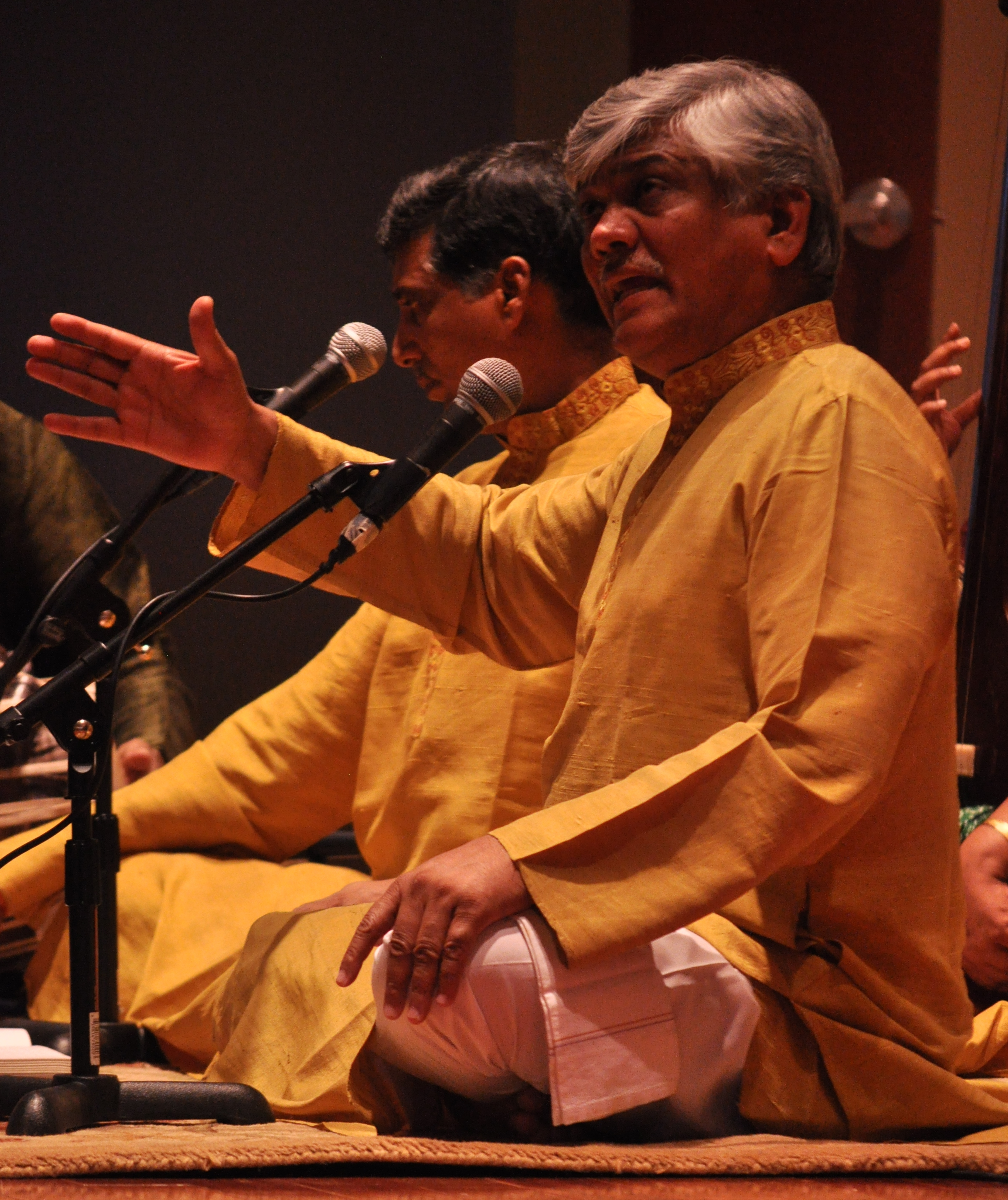 The Gundecha Brothers, performing at the Baha'i Center in Bellevue, Washington, USA. Umakant Gundecha in foreground, Ramakant Gundecha in background.